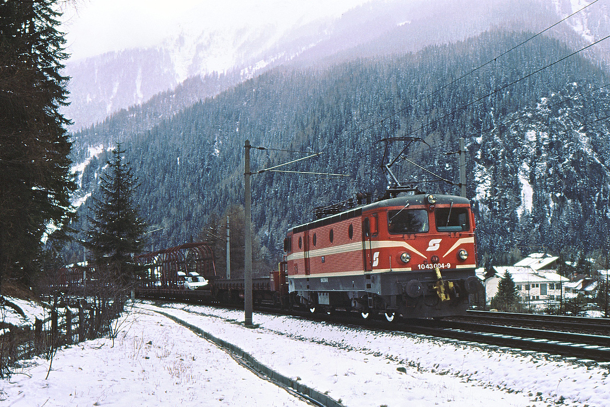 ÖBB 1043 004-9 with a Autoschleuse Tauernbahn train near Mallnitz.